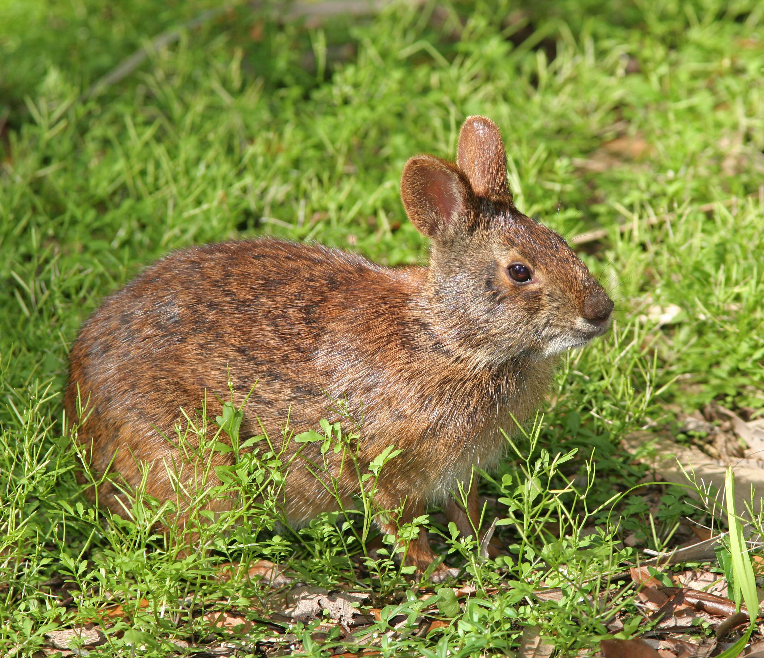 Marsh Rabbit (Sylvilagus palustris) at Green Cay wetlands, Delray Beach, Florida